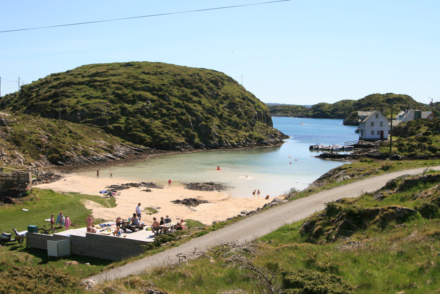 The beach at Møkster, 5 min walk from the harbour.